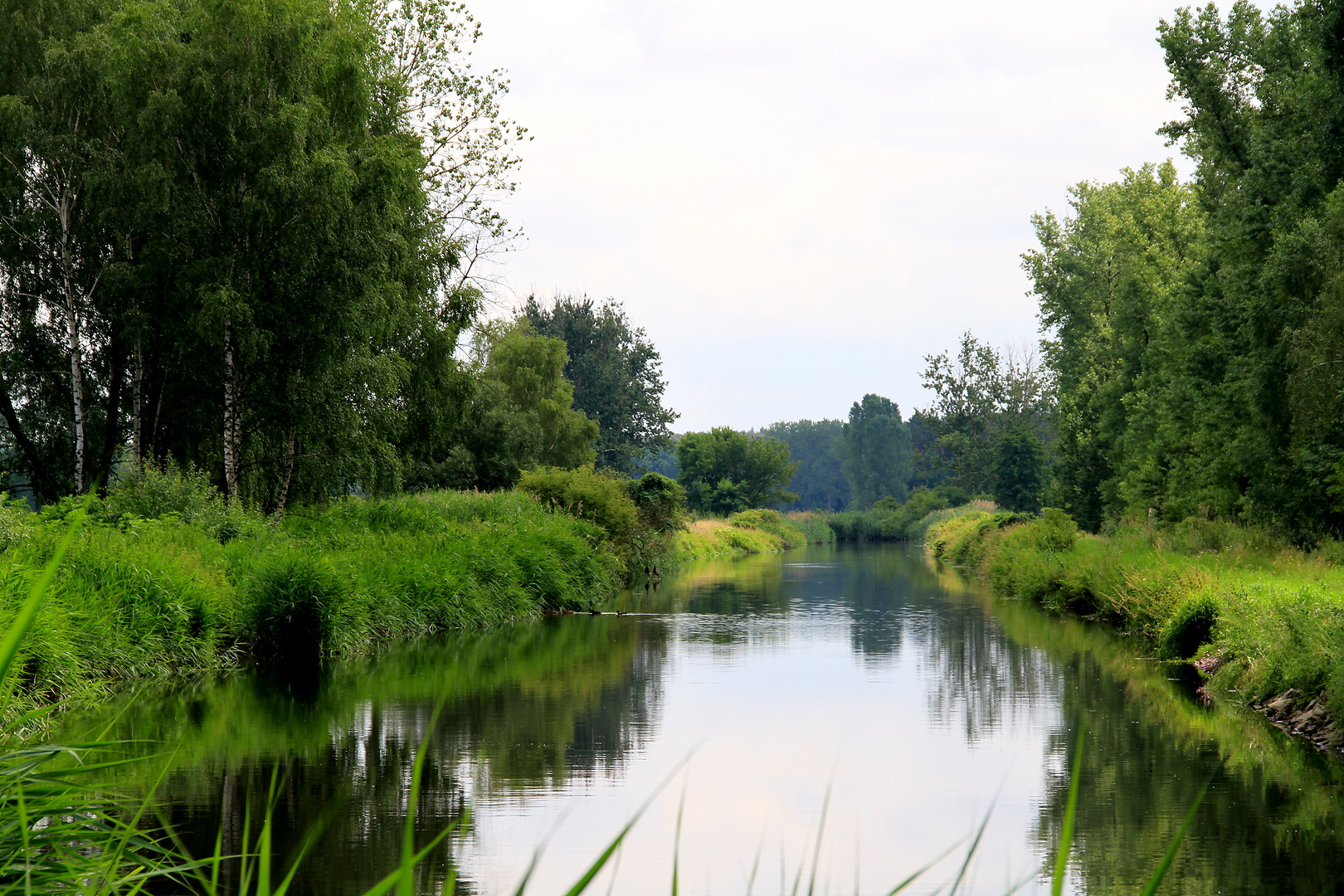 Ner river in Puczniew